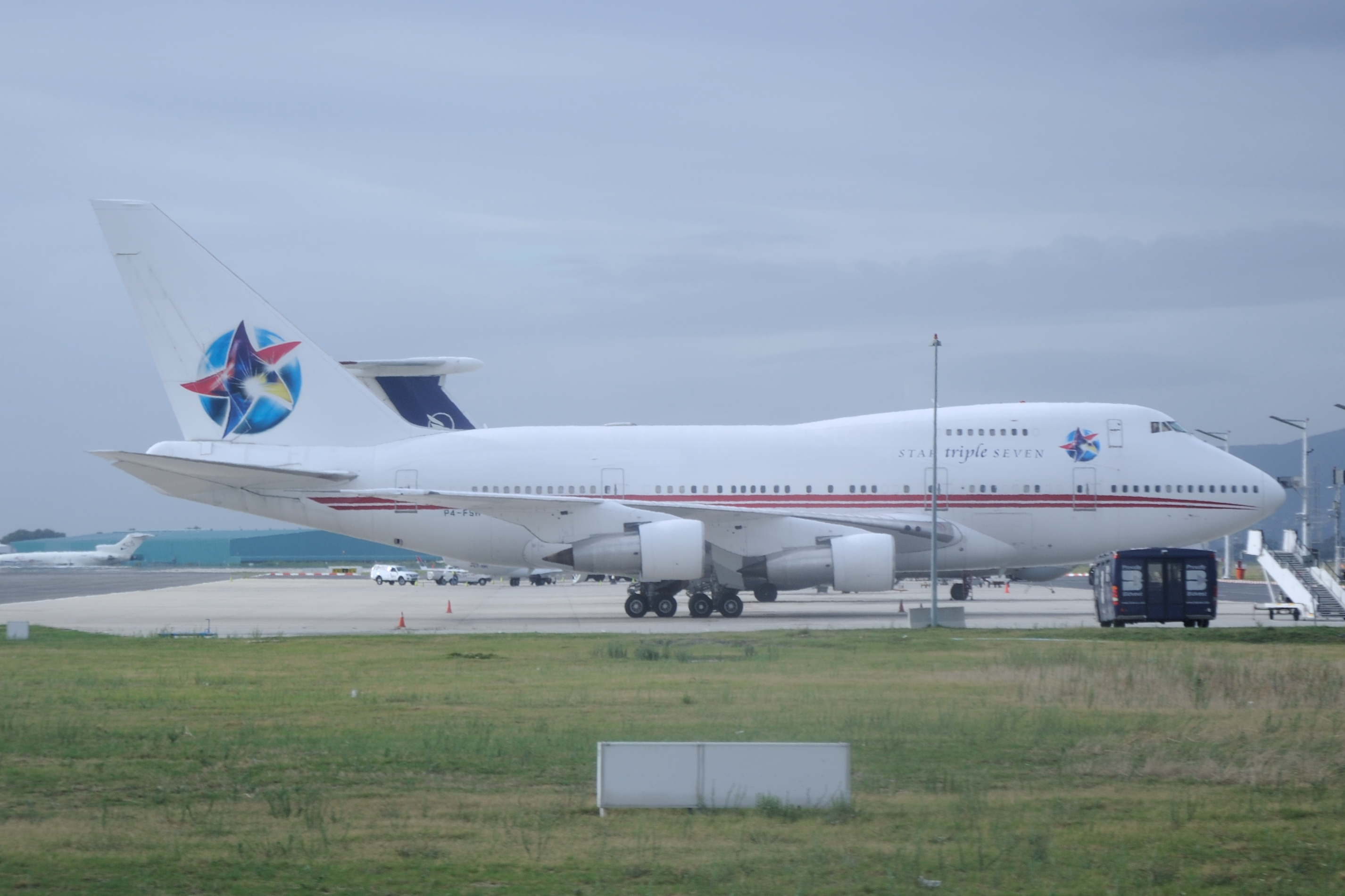 South Africa, spotting at Cape Town International Airport